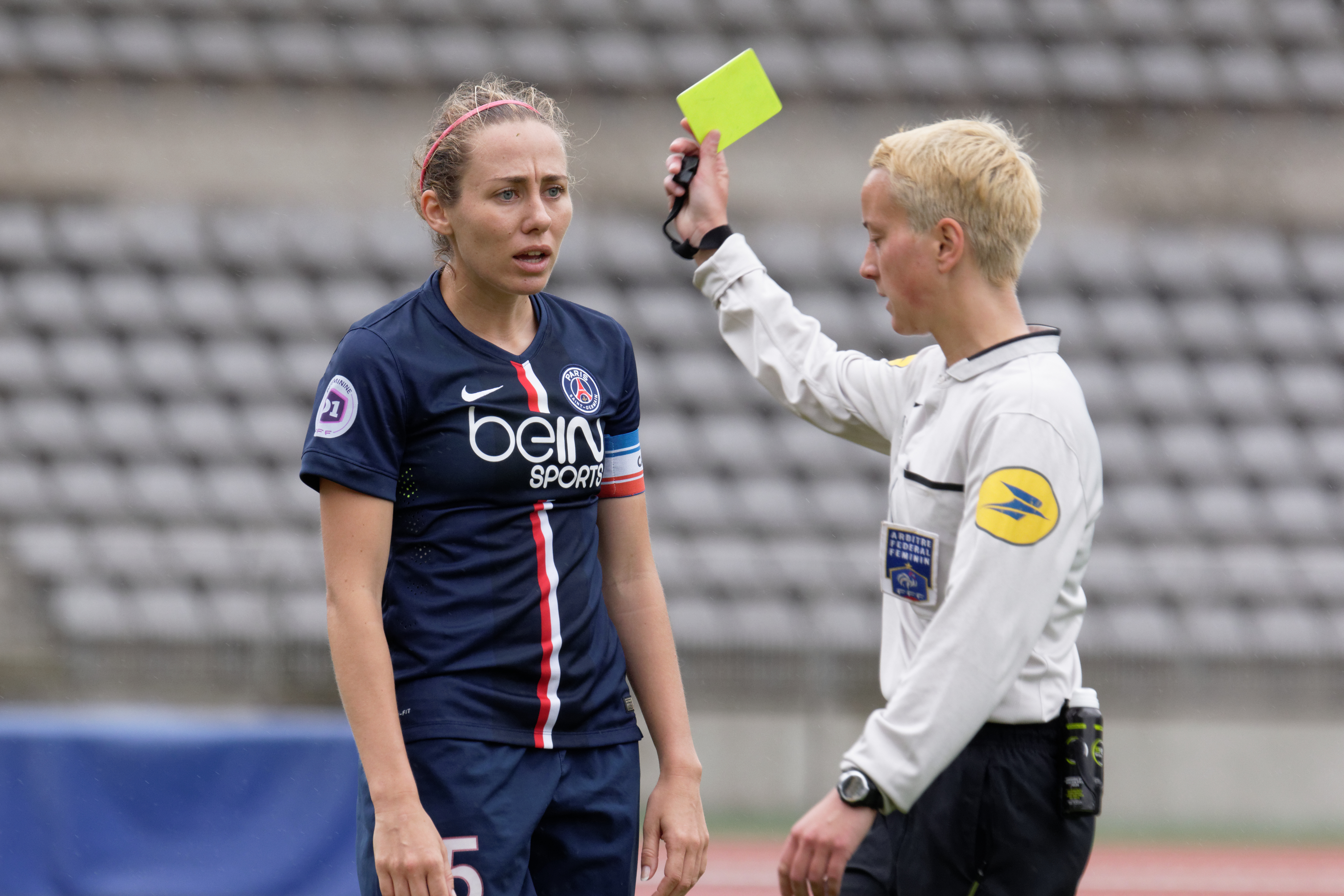 PSG vs Rodez, 3rd May 2015. Sabrina Delannoy taking a yellow card shown by the referee Aurore Vanstaevel during the match between PSG and Rodez (5-0).